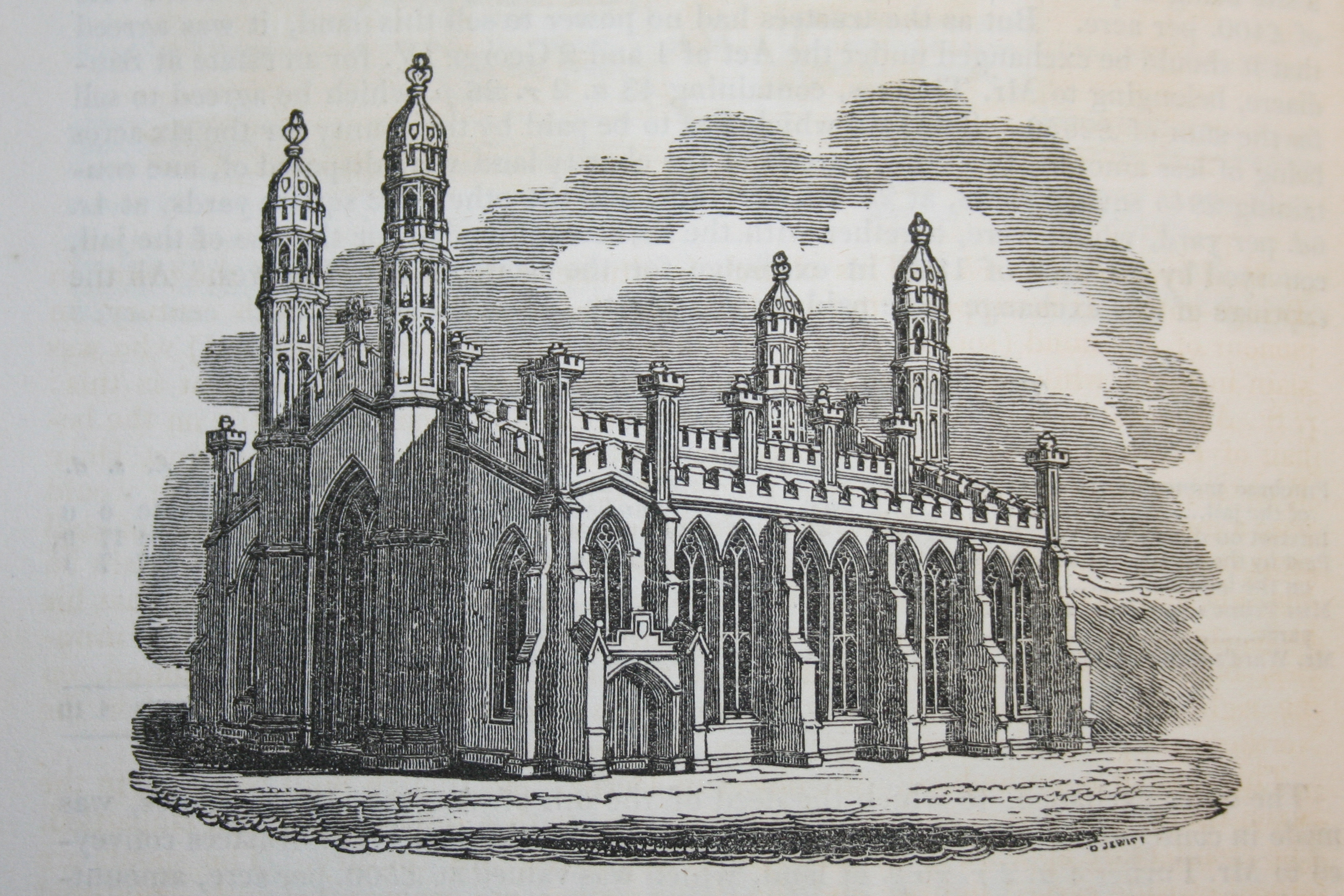 Engraving of Church of Saint John the Evangelist, Derby, from The History and Gazetteer of the County of Derby, Stephen Glover, published by Henry Mozley and Sons, Derby, 1833. The engraving shows the church prior to removal of the cupolas on the 4 towers, which had been removed prior to 1900.